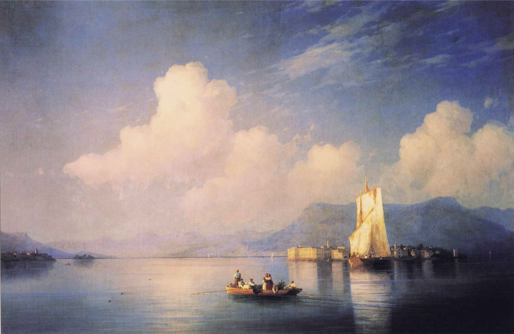 Material and Dimensions: Oil on canvas, 109 x 160 cm